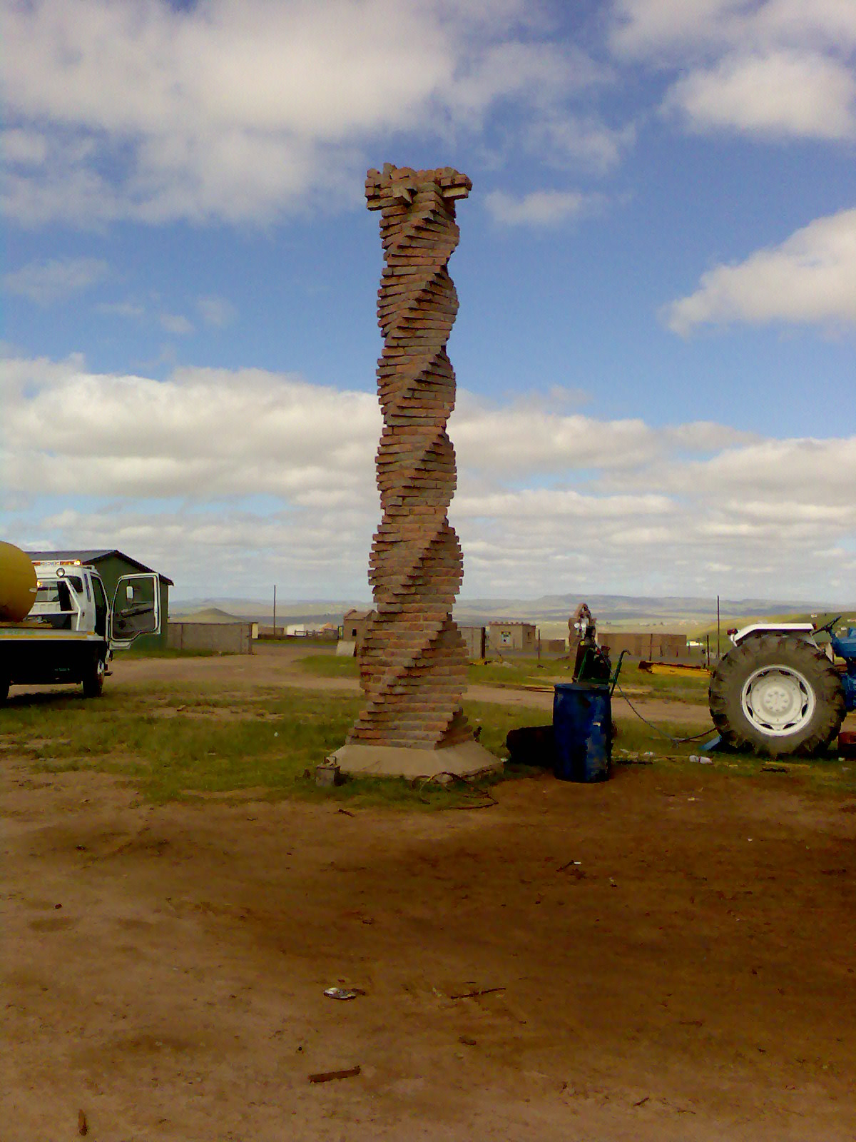 Author: Gregorydavid 18:32, 29 December 2006 (UTC)